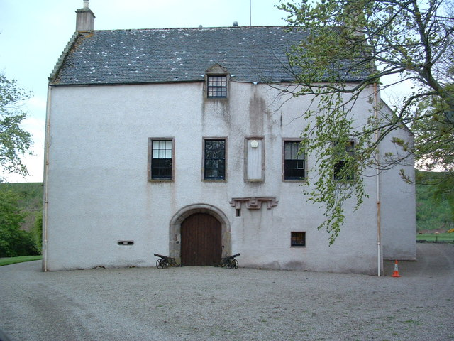 Castle of Allardice (aka Allardice Castle), near Inverurie, Aberdeenshire